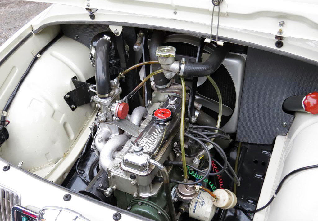 Renault Ventoux engine in a Brazilian-made 1962 Willys-Overland Dauphine. Nice chromed "Ventoux" walve cover.